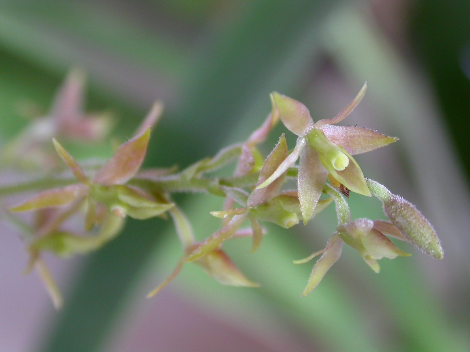 Lanium avicula